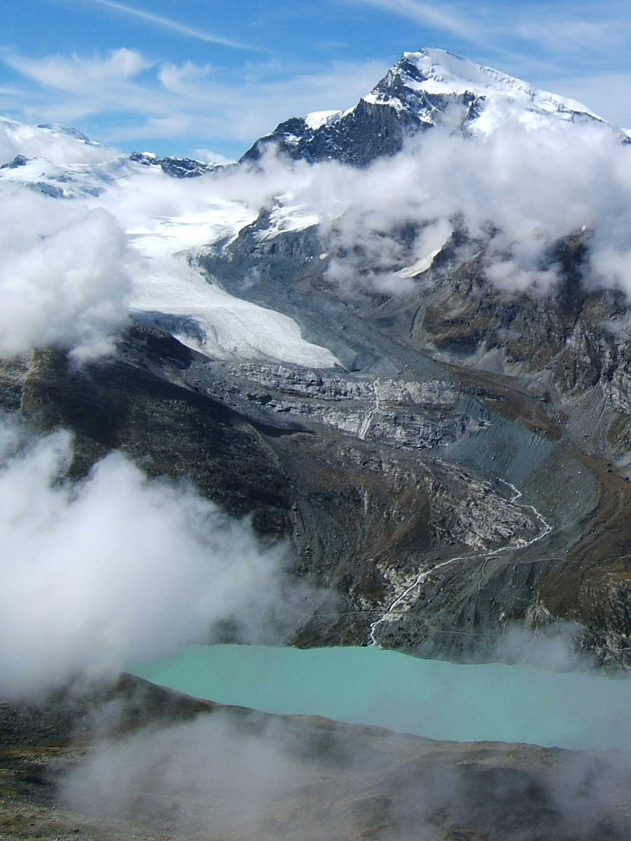 Schwarzberggletscher from East